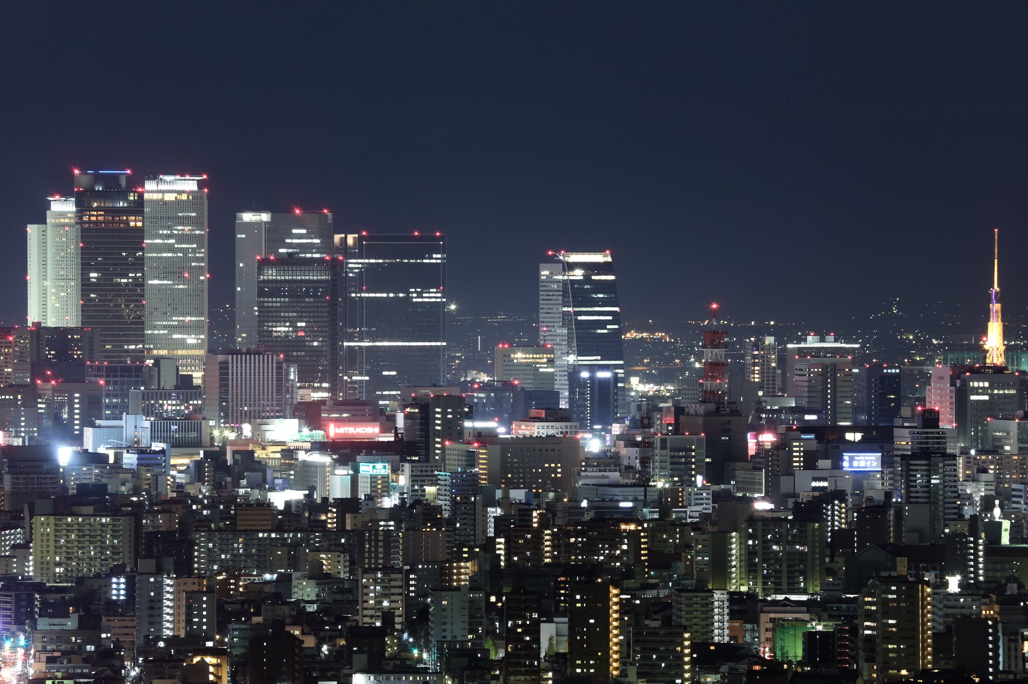 Nagoya Night View